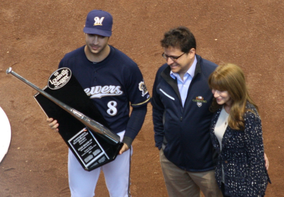 Milwaukee Brewers owner Mark Attanasio give the 2011 National League Outfielder Silver Slugger Award to Ryan Braun.